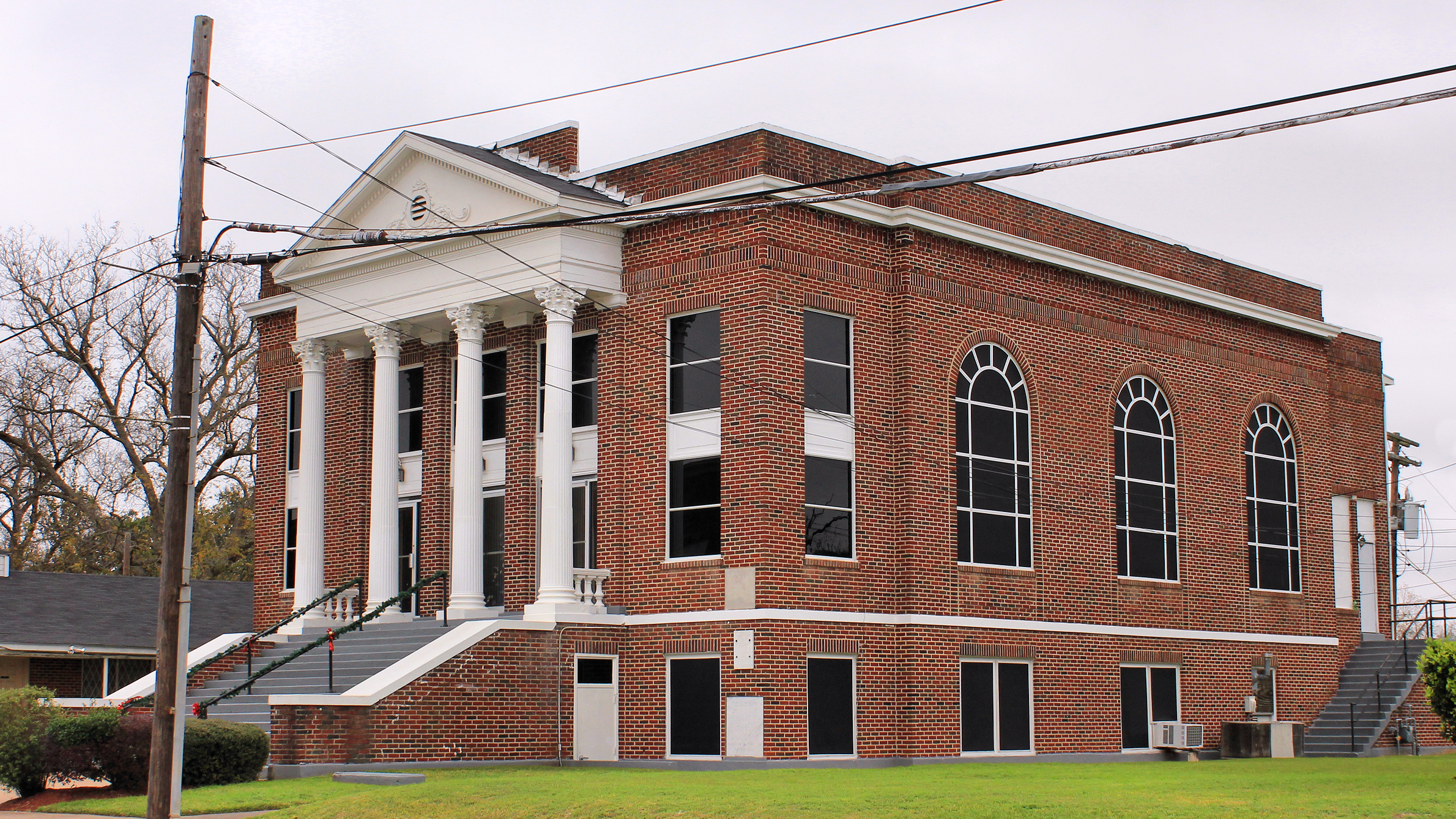 The Old First Methodist Episcopal Church South was built in 1927. The building was listed on the National Register of Historic Places on March 18, 1993. The building now houses New Hope Community Church.